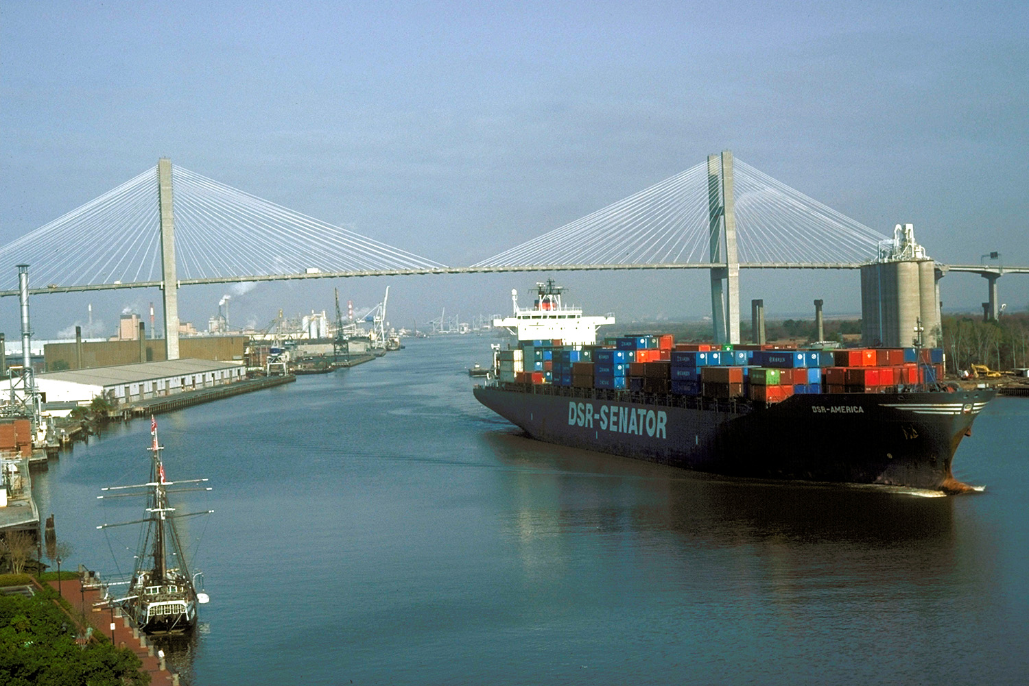 The Eugene Talmadge Memorial Bridge over the Savannah River at Savannah, Georgia, USA.